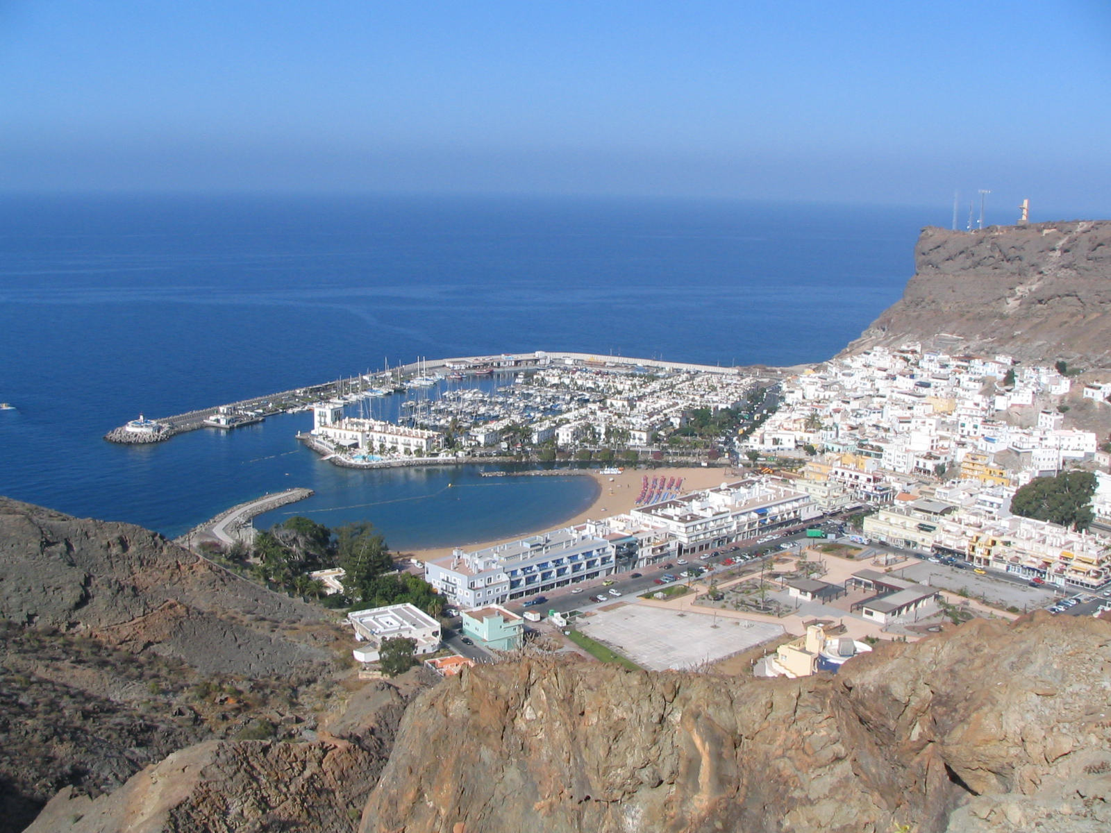 A westward looking view of Puerto de Mogán in SW Gran Canaria taken from the cliffs above the coast road.